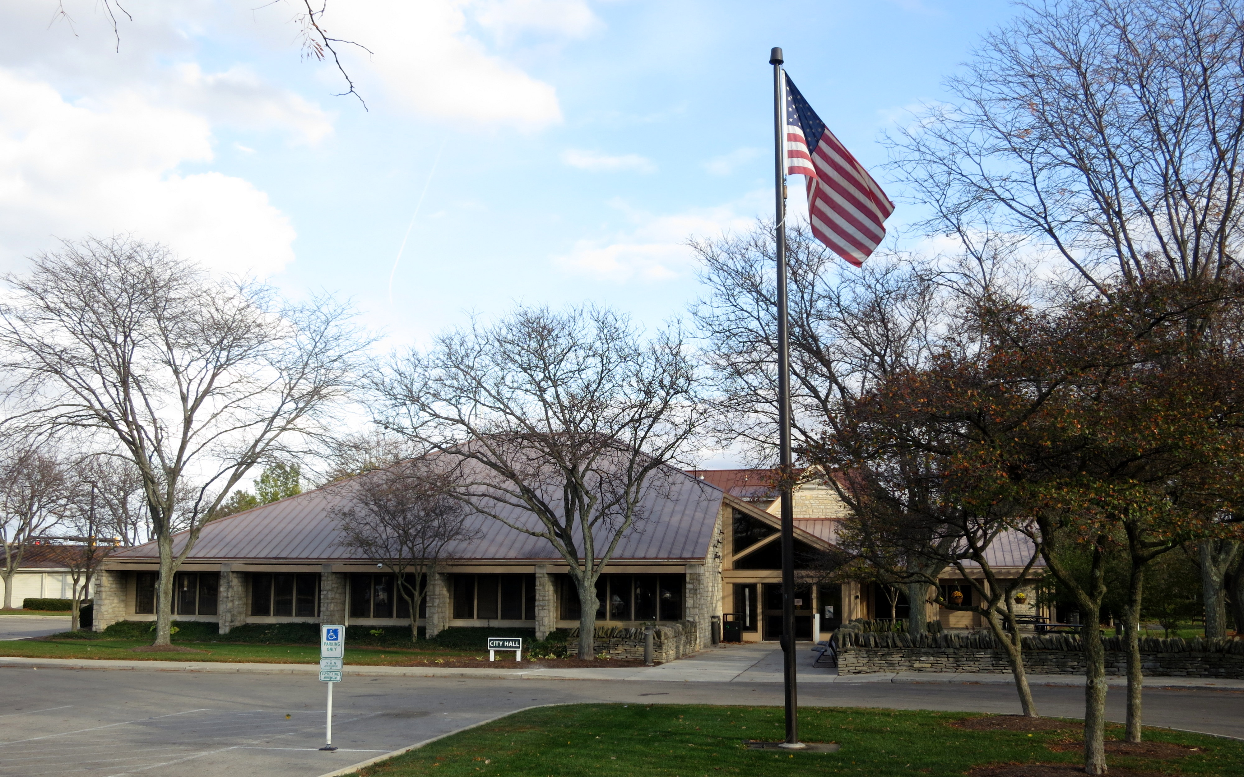 Dublin, Ohio Dublin City Hall (Dublin, Ohio) - from parking lot at 5200 Emerald Parkway